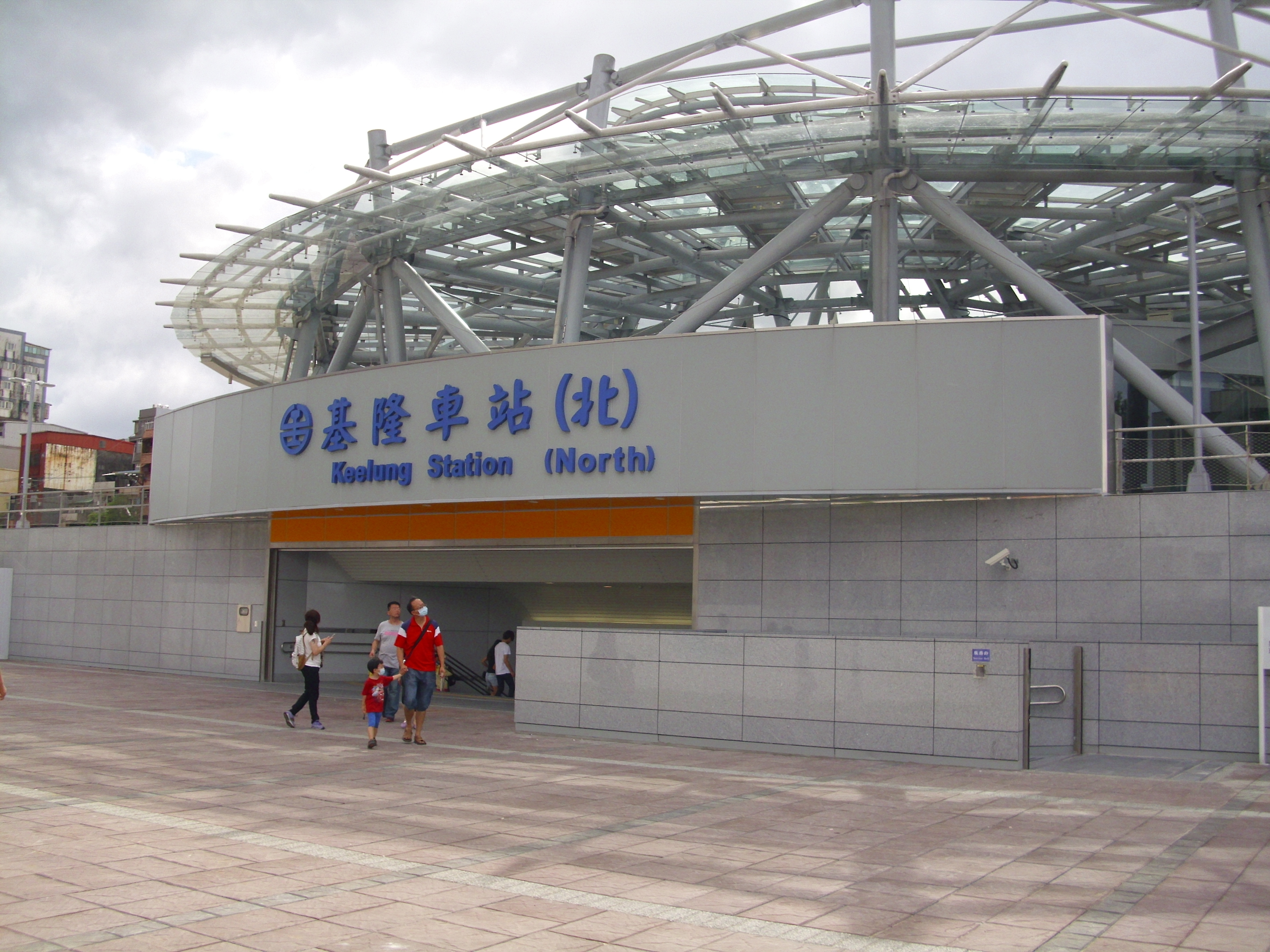 North Entrance, TRA Keelung Station.